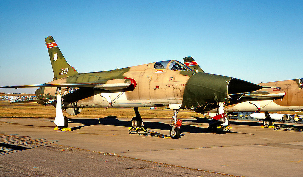 127th Tactical Fighter Training Squadron - Republic F-105D-31-RE Thunderchief (s/n 62-4347).